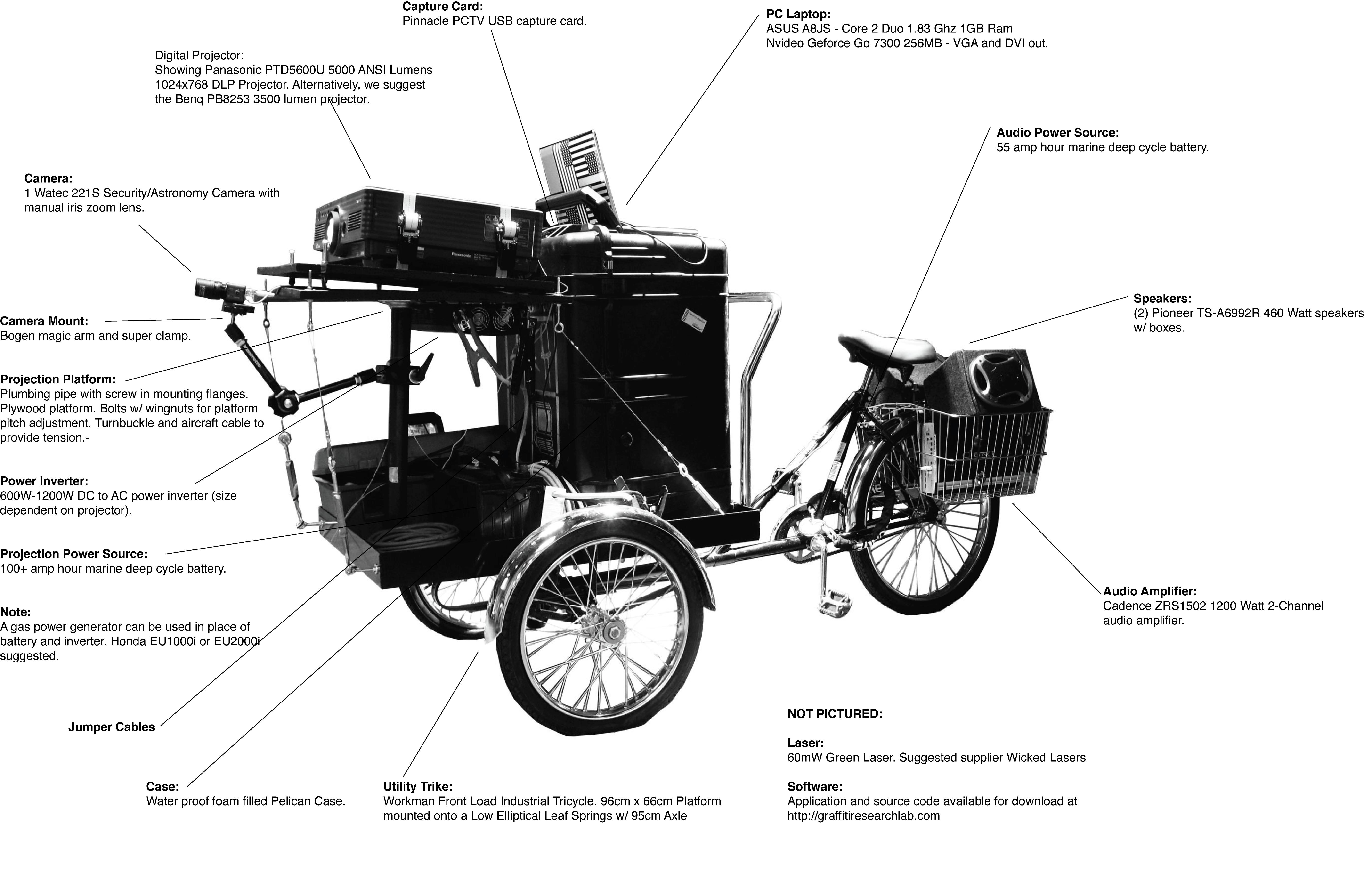 Author: Graffiti Research Lab, Evan Roth, James Powderly